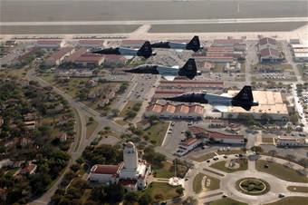 Four T-38 Talons fly over Randolph Air Force Base, Texas, March 27 2008 for the 35th anniversary reunion of the "Freedom Flyers." These former prisoners of war return to Randolph each year and three of them flew back seat during the mission. The aircraft are from the 560th Flying Training Squadron. (U.S. Air Force photo/Master Sgt. Scott Reed)